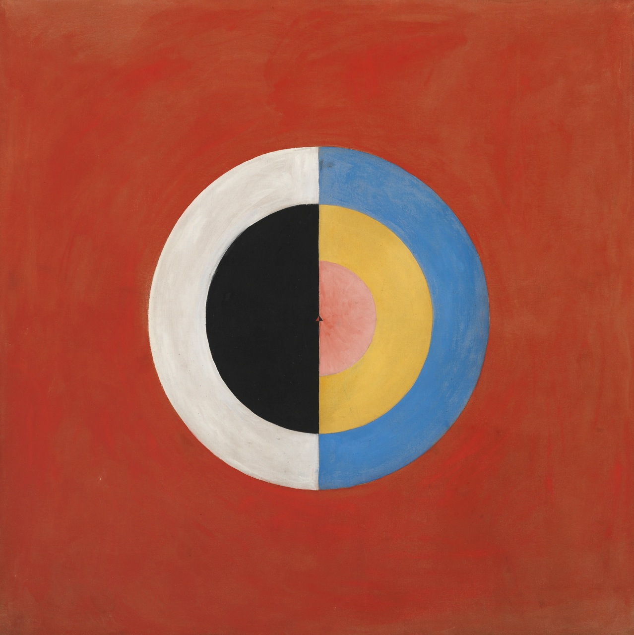 Hilma af Klint "Svanen, nr 17, grupp IX/SUW, serie SUW/UW", 1915. Stiftelsen Hilma af Klints Verk. Photo: Moderna Museet/Albin Dahlström.